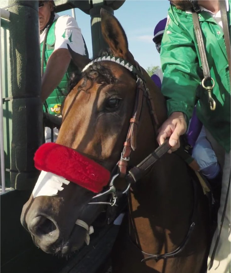 Thoroughbred racehorse, Nyquist, in the starting gate before the running of the 2016 Kentucky Derby.